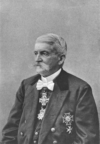 Portrait photograpoh of Gustav von Diest from his autobiography Aus dem Leben eines Glücklichen: Erinnerungen eines alten Beamten. Berlin: Mittler 1904